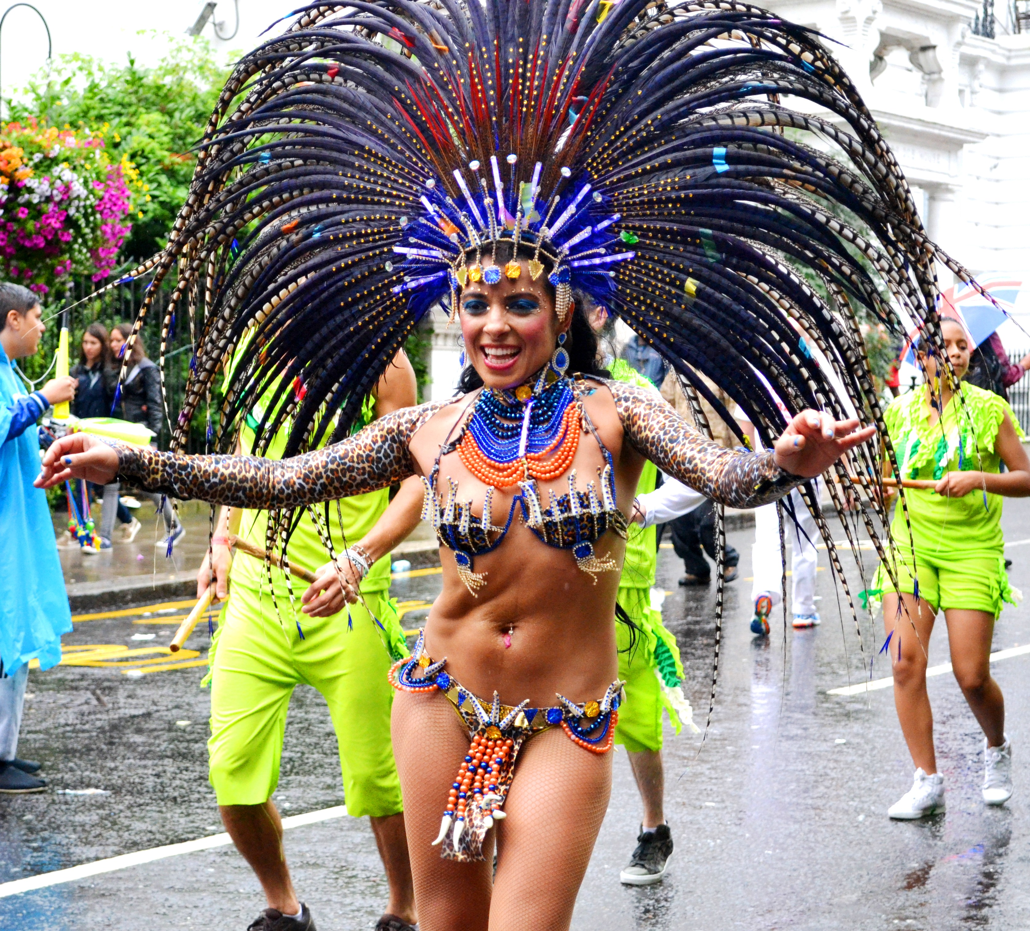 Notting Hill Carnival 2014, London, U.K.